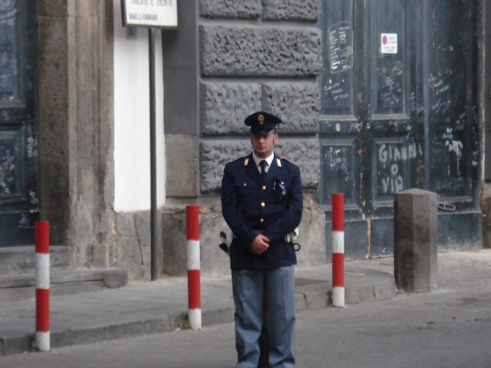 Policeman in Naples Ripoarisch: ene Blööh en Nejaapel